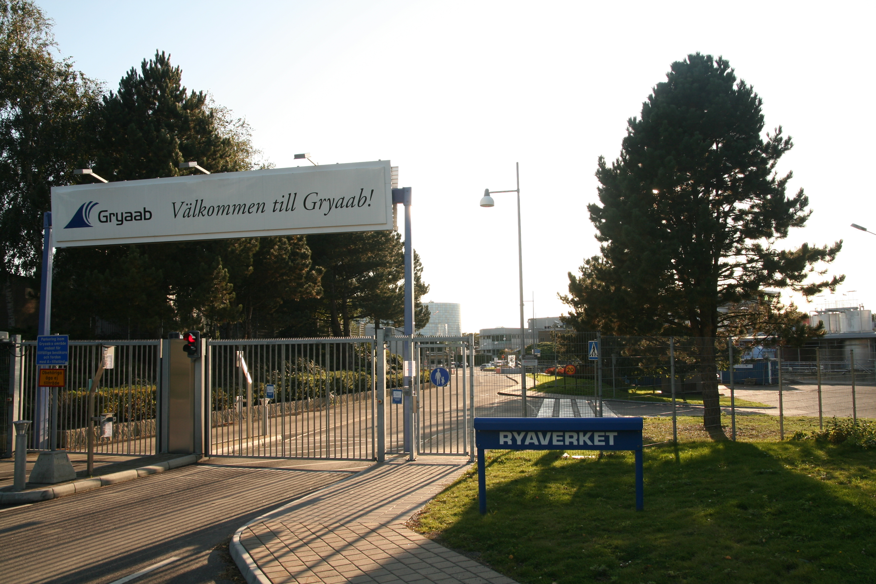 The entrance of the wastewater plant Ryaverket in Göteborg, Sweden.